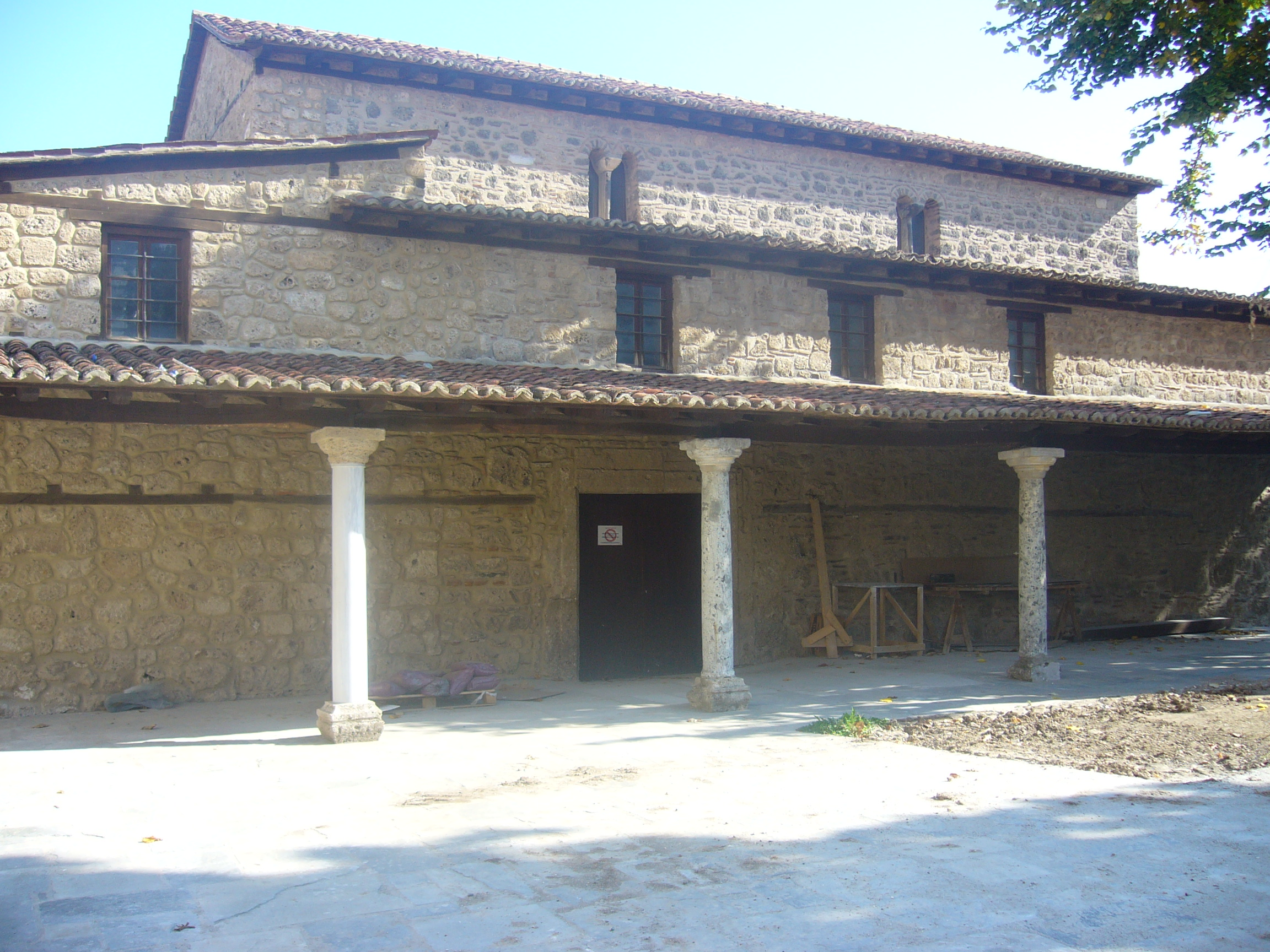 Church in Edessa, Pella prefecture, Greece.